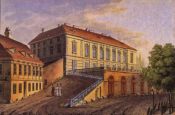 Engraving representing the Modena Palais of the Beatrixgasse